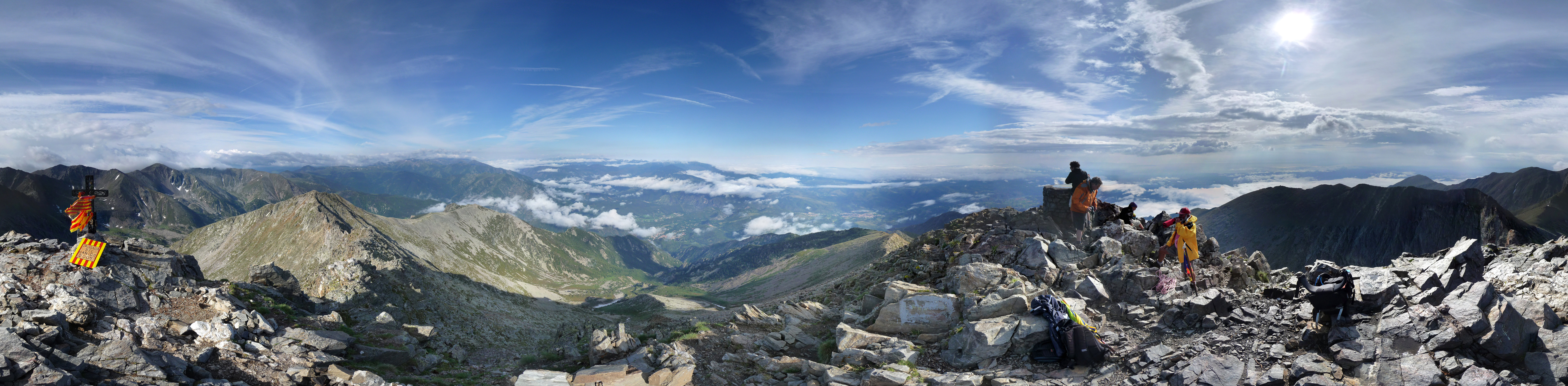 360 Panorama from Summit of Le Canigou